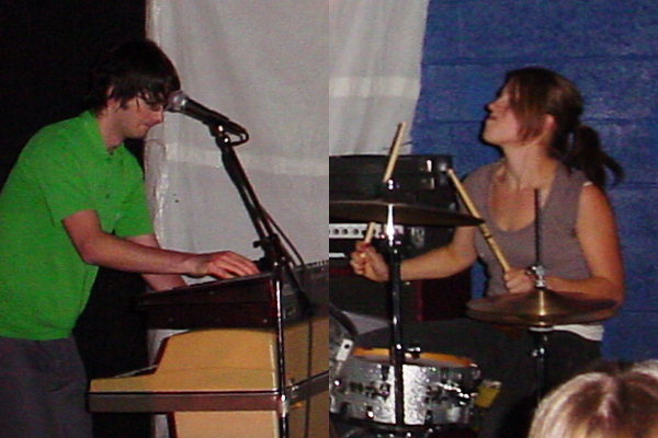 The Aquarium, shot and pieced together in Adobe Photoshop by Maxxo